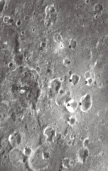 Capella lunar crater as seen from Earth with satellite craters labeled